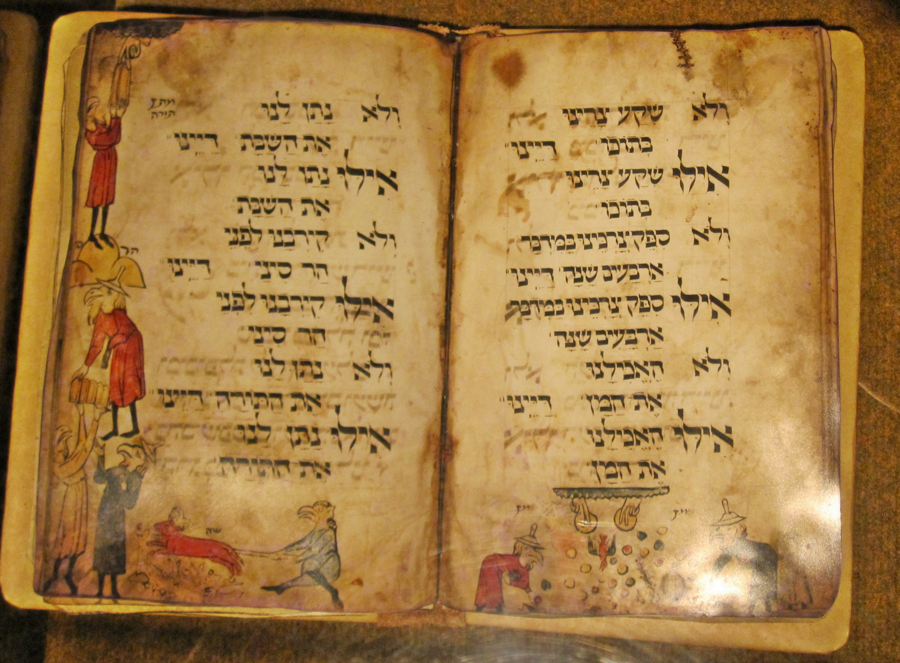 This is a photo of an exhibit at the Diaspora Museum, Tel Aviv - Beit Hatefutsot. The exhibit note says "Double page of a "Daiyyeinu" from the Birds' Head Haggada manuscript, South Germany. c.1300. Facsimile, Jerusalem, Israel Museum"